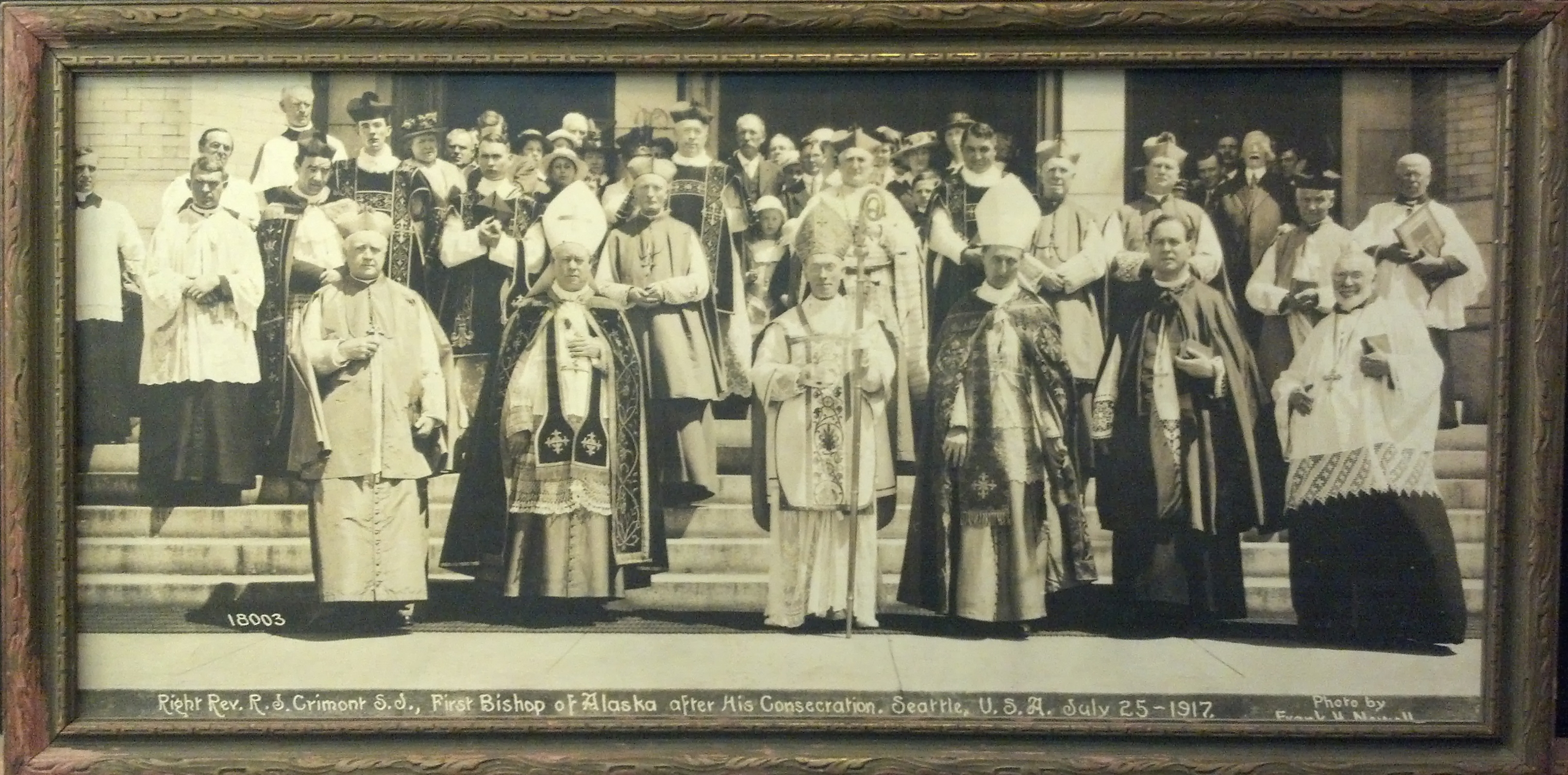 The Reverent Crimont and fellow priests after his consecration as the first Bishop of Alaska, taken July 1917 by Frank Nowell. Outside the main (west) doors of St. James Cathedral, Seattle, Washington, U.S. Crimont would have been bishop of the apostolic vicariate of Alaska, which nowadays (2014) is reconstituted as three archdioceses.